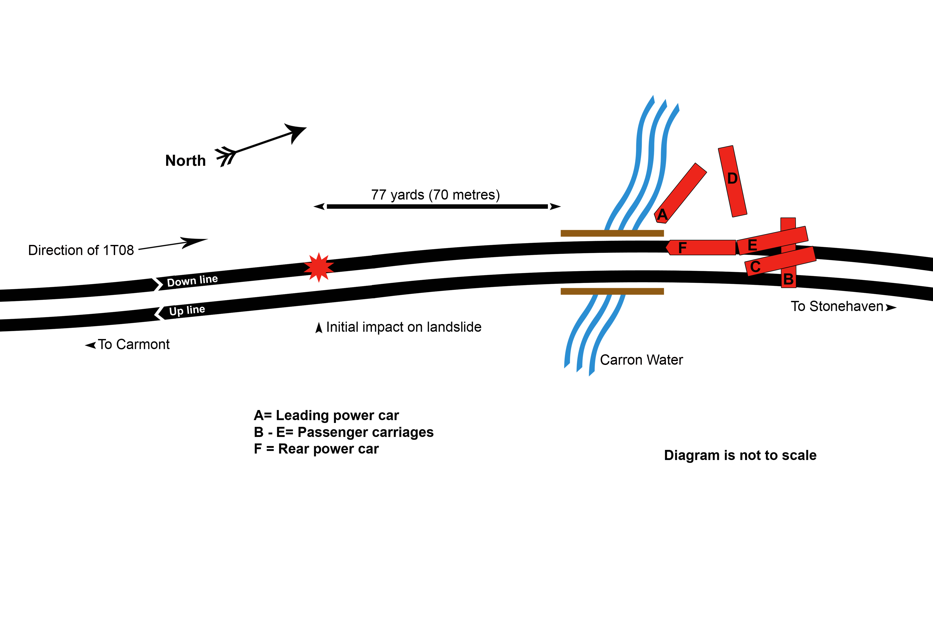 A schematic diagram of the Stonehaven derailment.This is representational only and is not to scale.